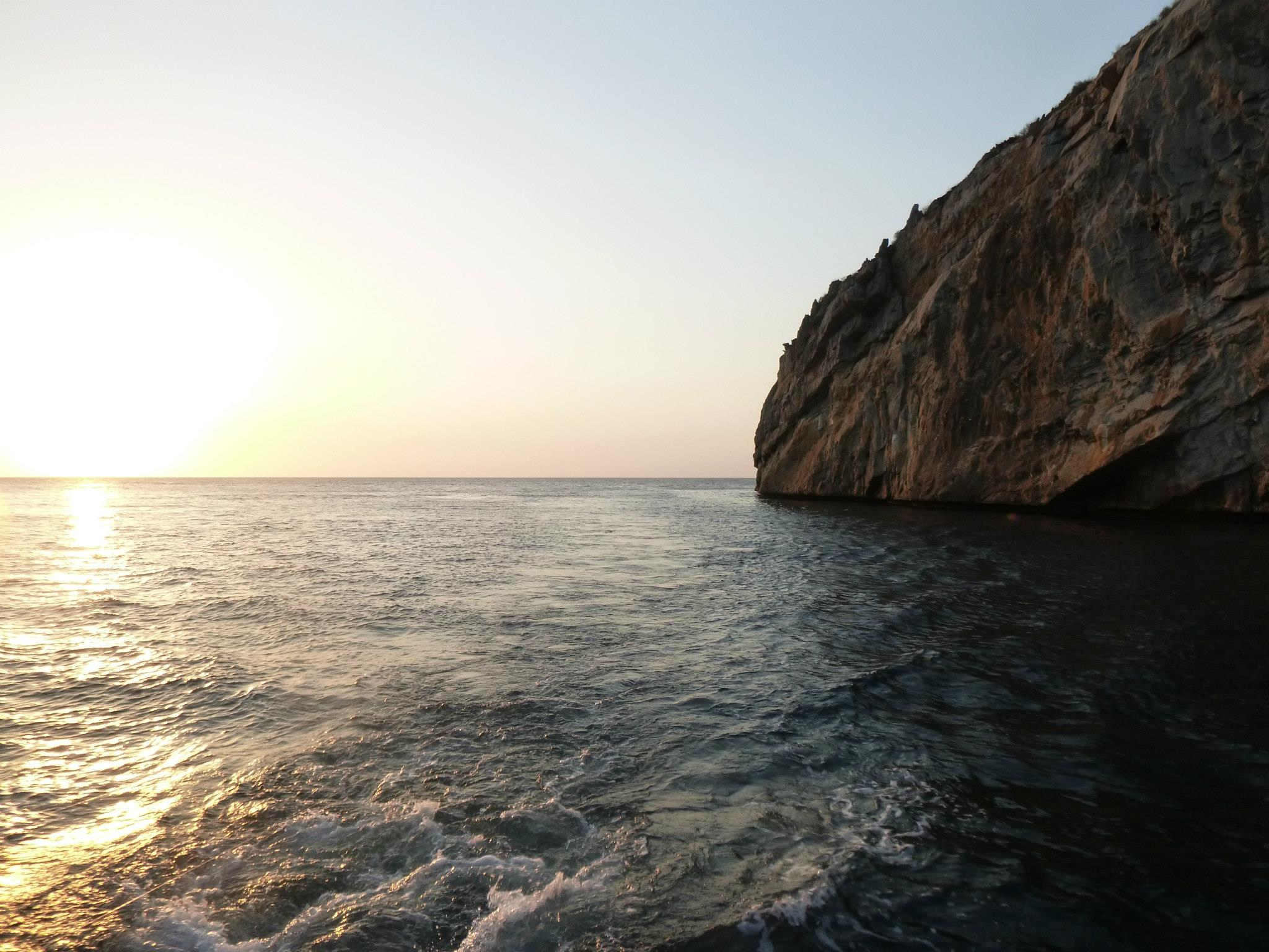 Isla Borracha Sígueme en Instagram: dimitriskynov